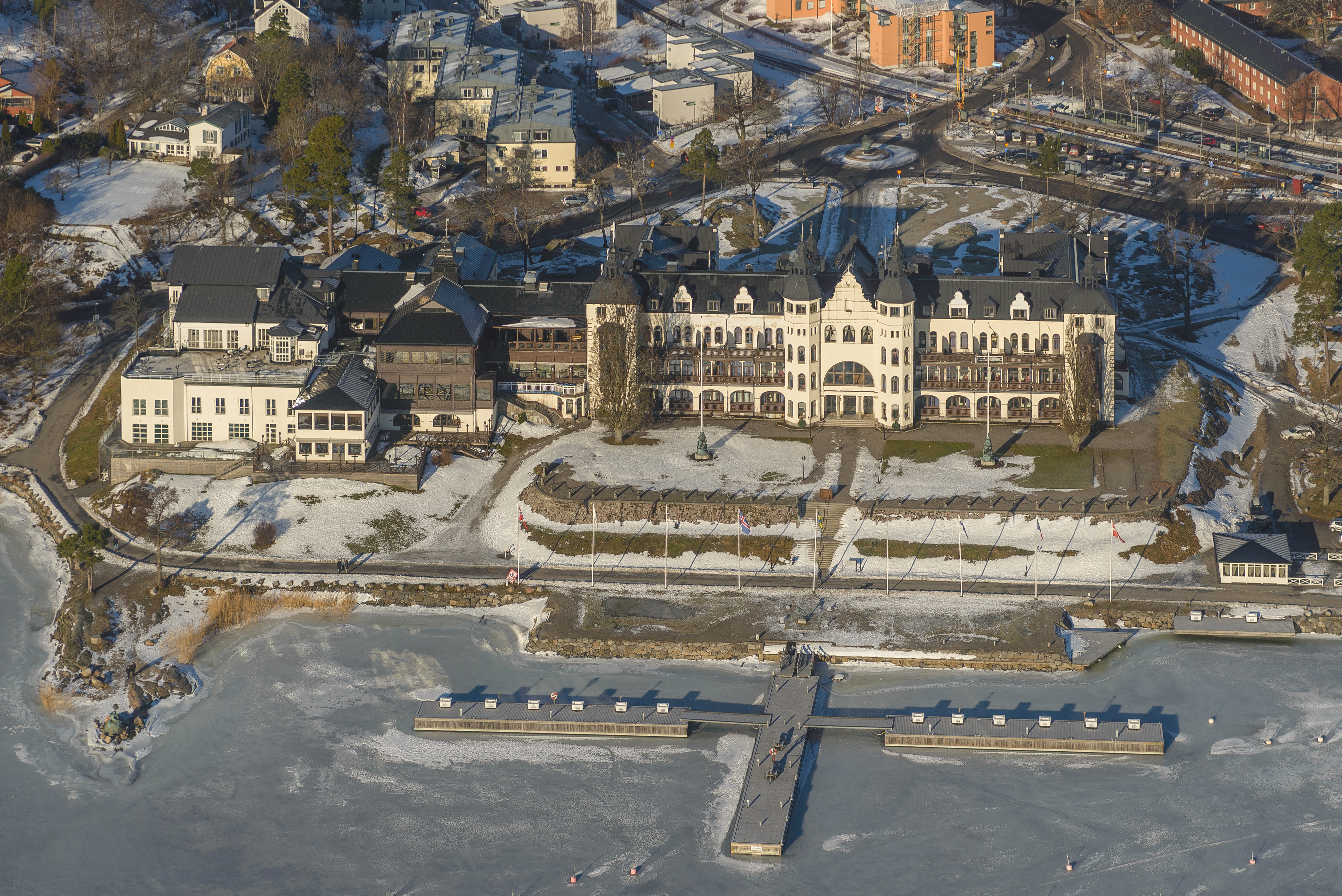 Grand hotell, Saltsjöbaden.